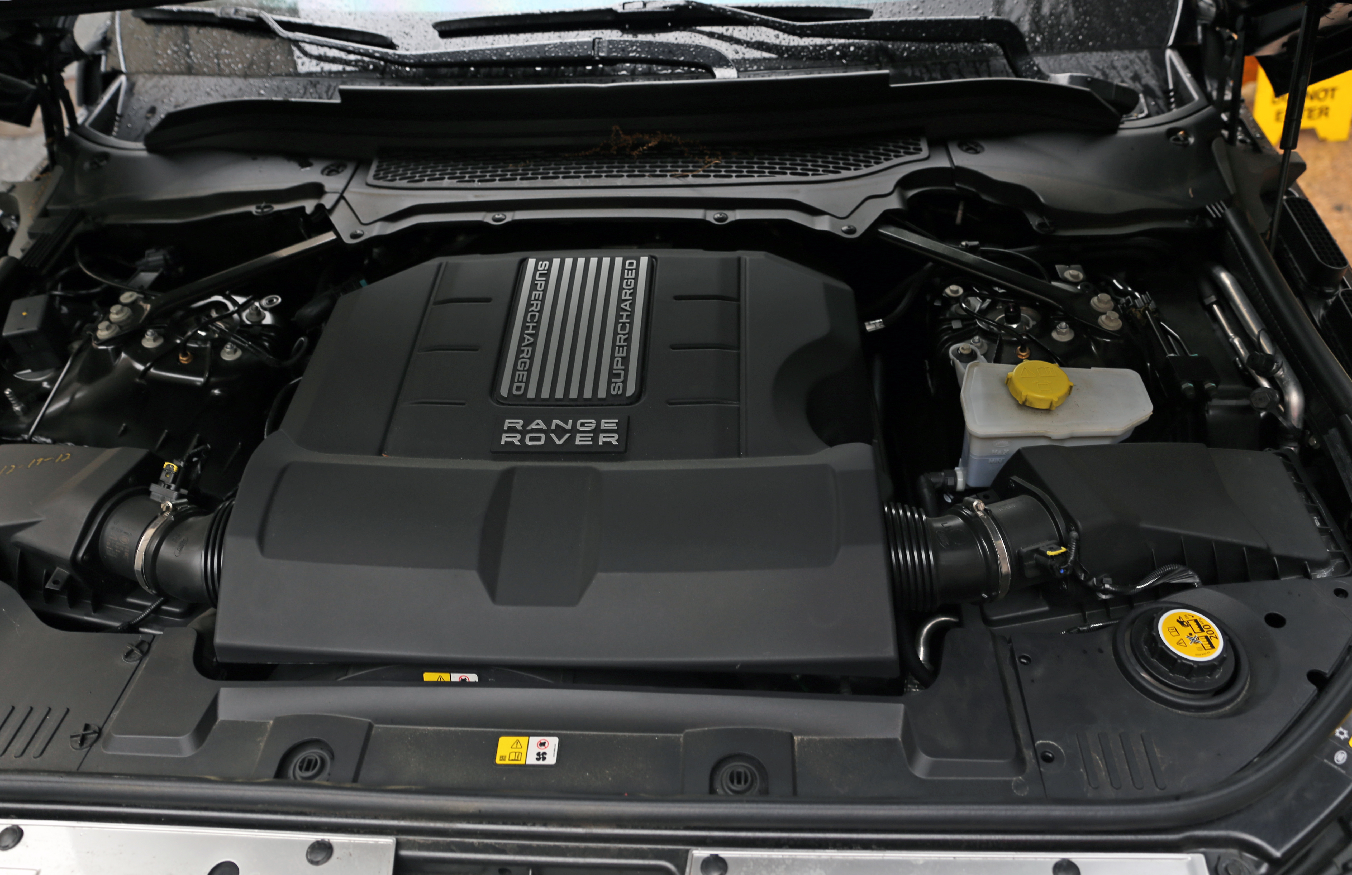 The supercharged 5-litre V8 of the fourth generation Range Rover (L405)